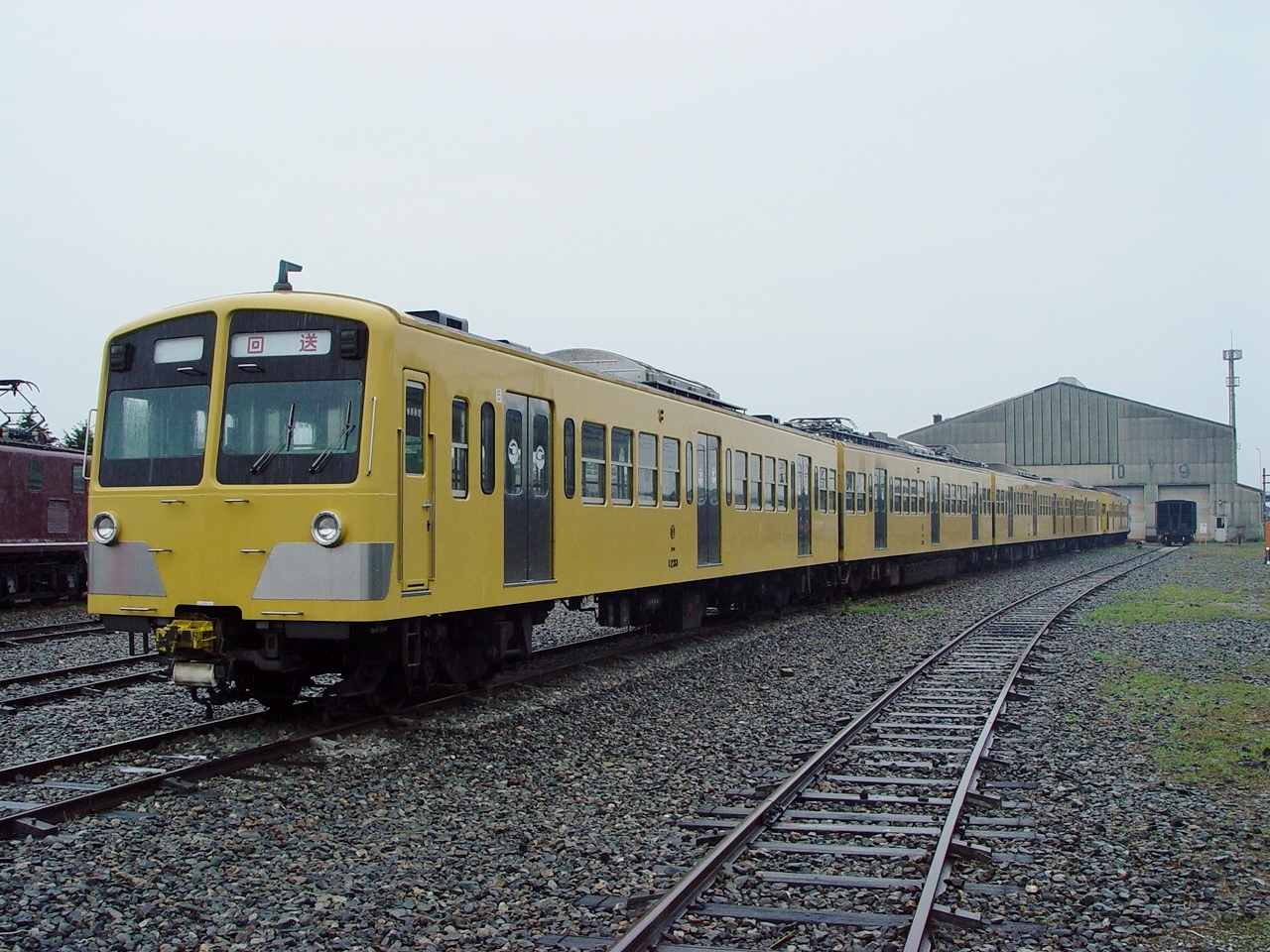 Former Seibu 101 series EMU cars awaiting conversion to become Chichibu Railway 6000 series EMUs on display at the annual depot open day at Hirosegawara Depot on the Chichibu Railway in Saitama Prefecture, Japan